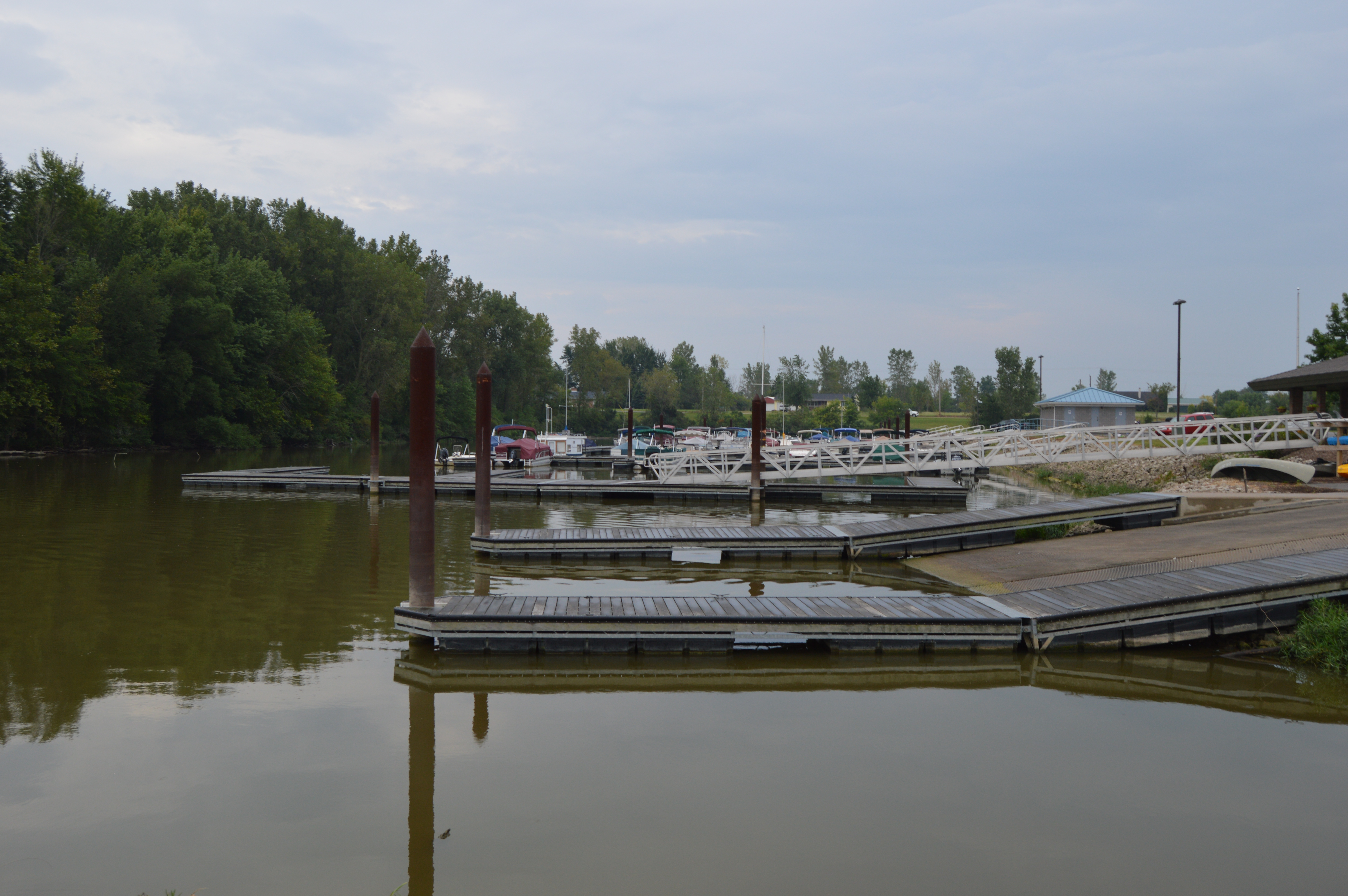 View from the north of the small harbor at Mary Jane Thurston State Park in northeastern Damascus Township, Henry County, Ohio, United States.